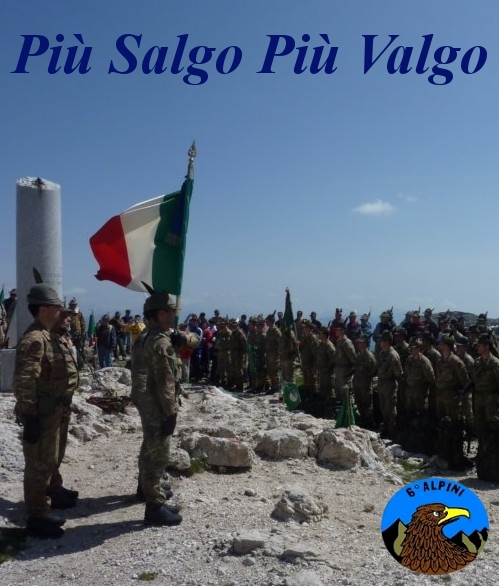 la Bandiera di Guerra sull'Ortigara,giugno 2010.